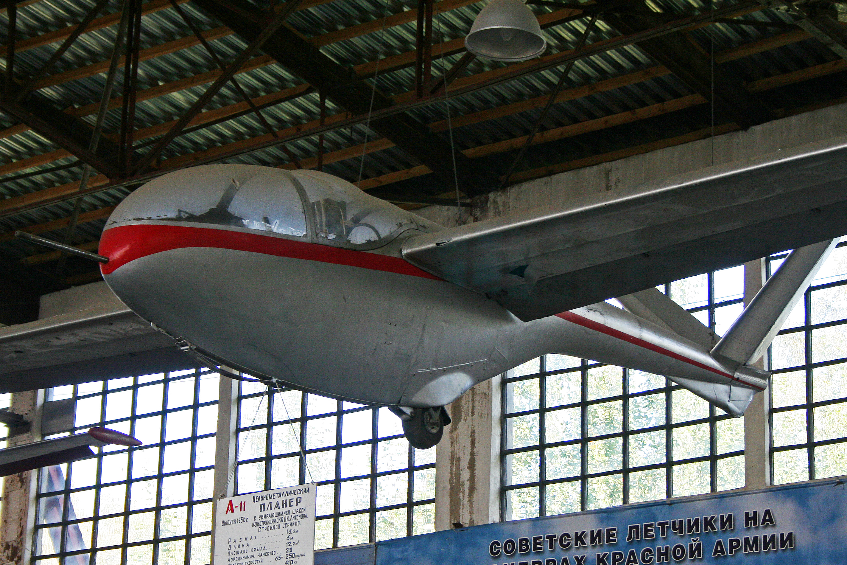 The A-11 was the first Antonov non-wood framed glider. It first flew in 1958 and some 150 were built. It was fully aerobatic and was passed for cloud flying. This example is on display suspended in the original display hangar at the Russian Air Force Museum. Monino, Russia. 13-8-2012